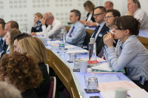 PMI Spring Conference 2016